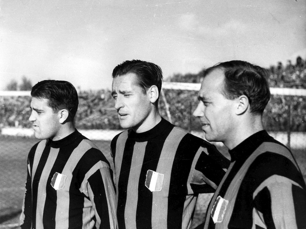 Milano. Da sinistra: i calciatori svedesi Gunnar Nordahl, Nils Liedholm e Gunnar Gren, ovvero il trio "Gre-No-Li" del Milan, in posa con le maglie scudettate nella stagione 1951-52.